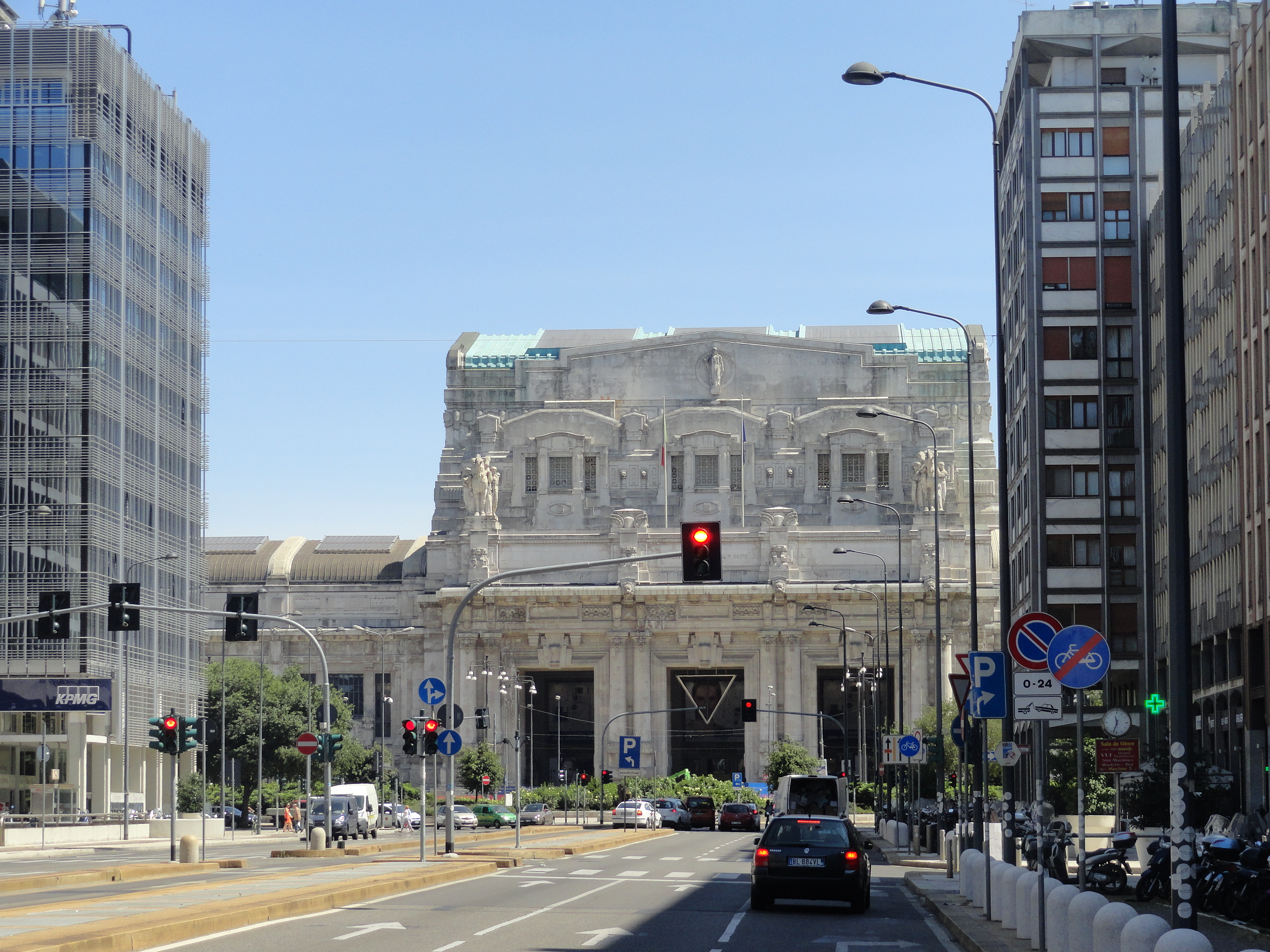 Stazione Centrale (Central railway station) in Milan, Italy. It is one of the main railway stations in Europe. I recommend you to visit for helpful travel tips.